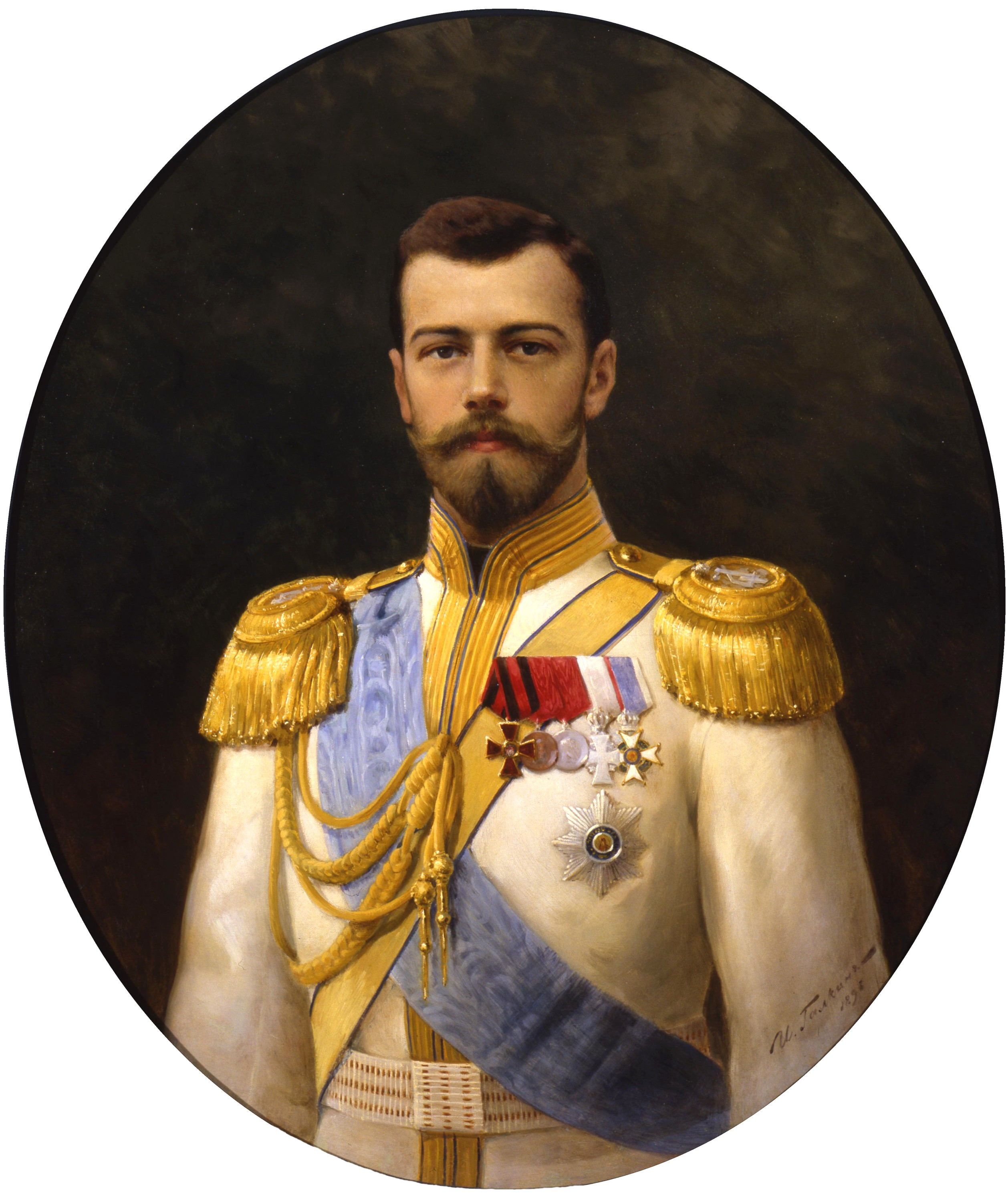 Portrait of Nicholas II of Russia (1868-1918)